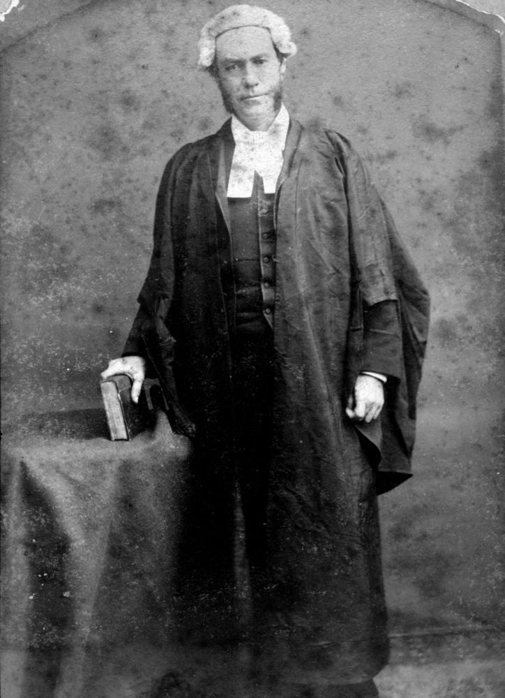 Portrait of Judge George William Paul, 1874 Portrait of Queensland Judge, George William Paul, dressed in his wig and robes, in 1874.